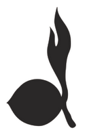 this is scout logo